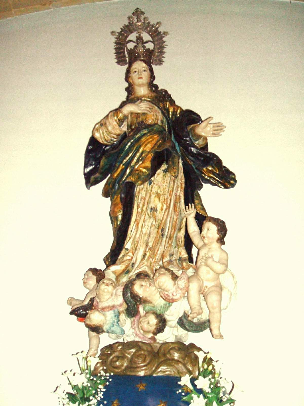 Talla rococó (1746) de la Inmaculada Concepción, en la Basílica de Santa María de la Asunción, Lequeitio (Vizcaya, Euskadi, España)